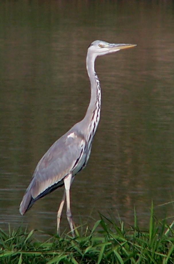 Grey Heron Ardea cinerea, Hong Kong